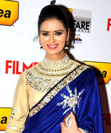 South Indian actress Meenakshi Dixit at the 60th Filmfare Awards South